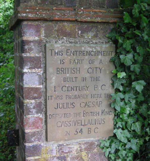 Photograph of sign at entrance to the Devil's Dyke, Hertfordshire, by Colin Riegels (2 July 2006)